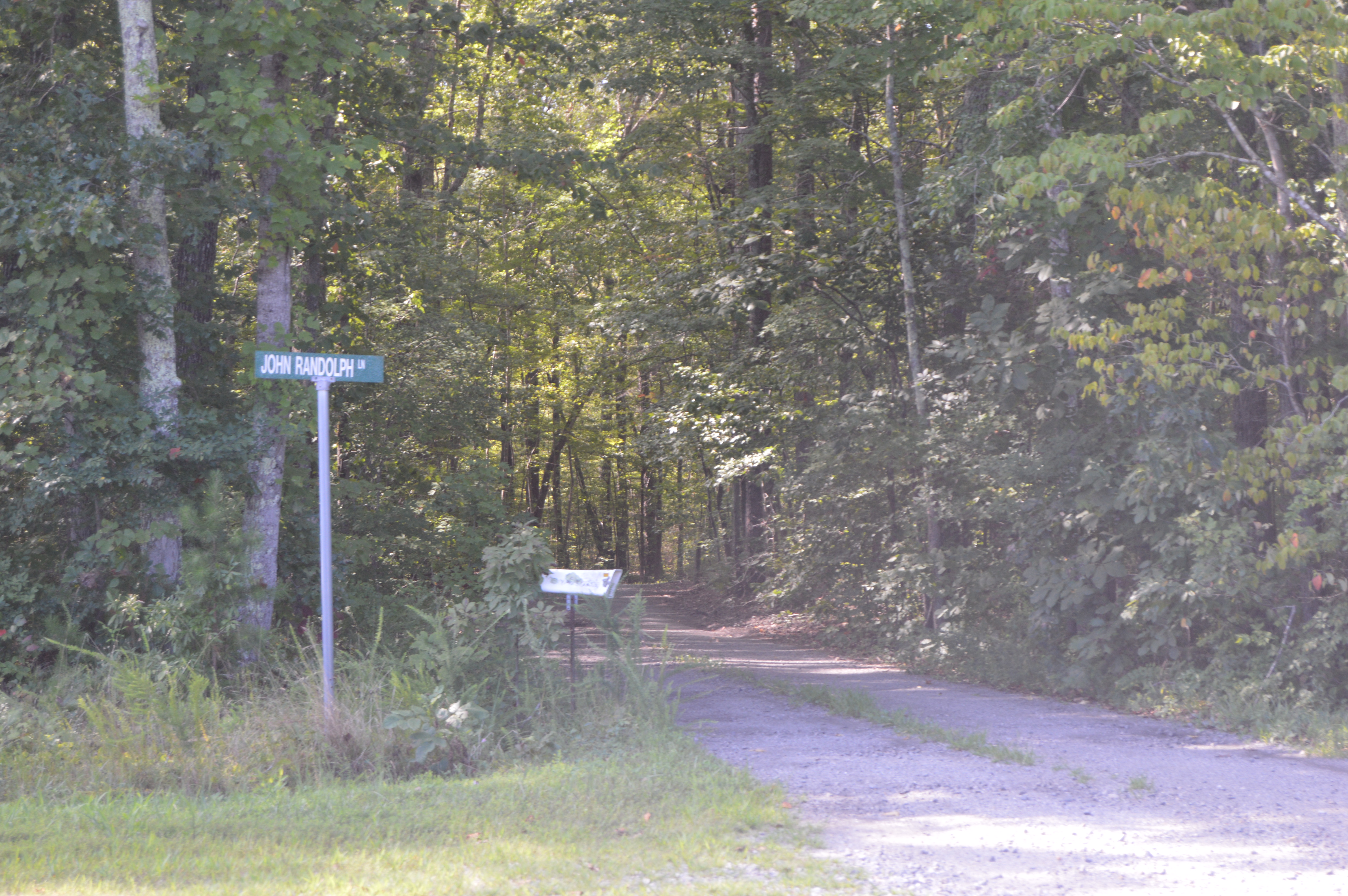 Driveway to the Roanoke Plantation (home of John Randolph of Roanoke), located off Newtown Road west of Saxe in Charlotte County, Virginia, United States. The property is listed on the National Register of Historic Places.